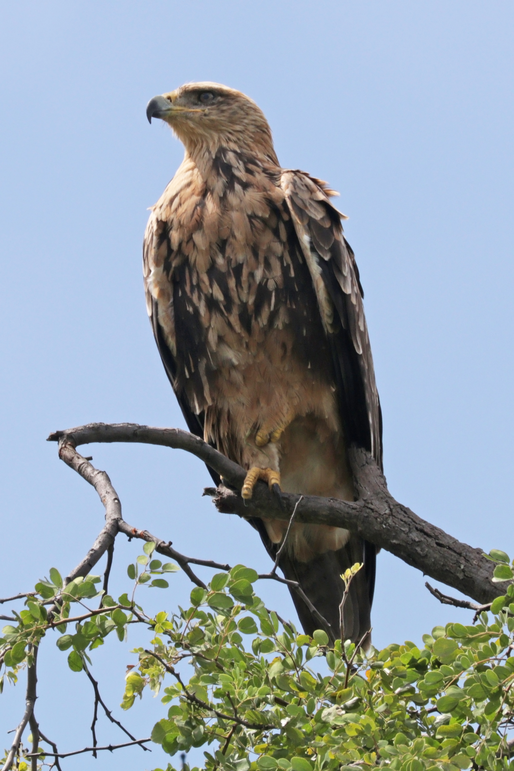 Tawny eagle (Aquila rapax rapax) streaked morph, Nkasa Rupara National Park, Namibia